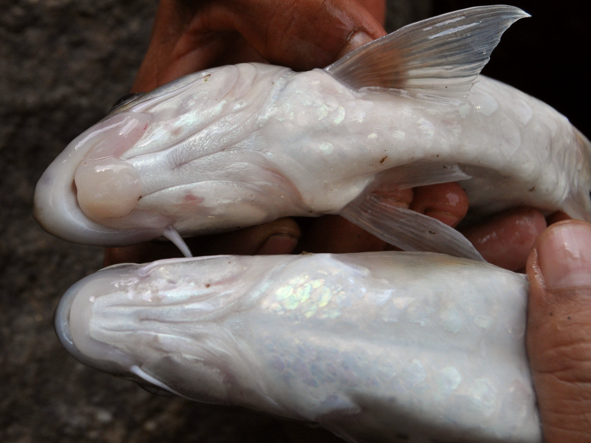 Tor tambroides, 267 mm SL (standard length); underparts view, in comparison with Tor douronensis (below). From Jambi, Sumatra, Indonesia. Note the mid lobe of their lower lips.